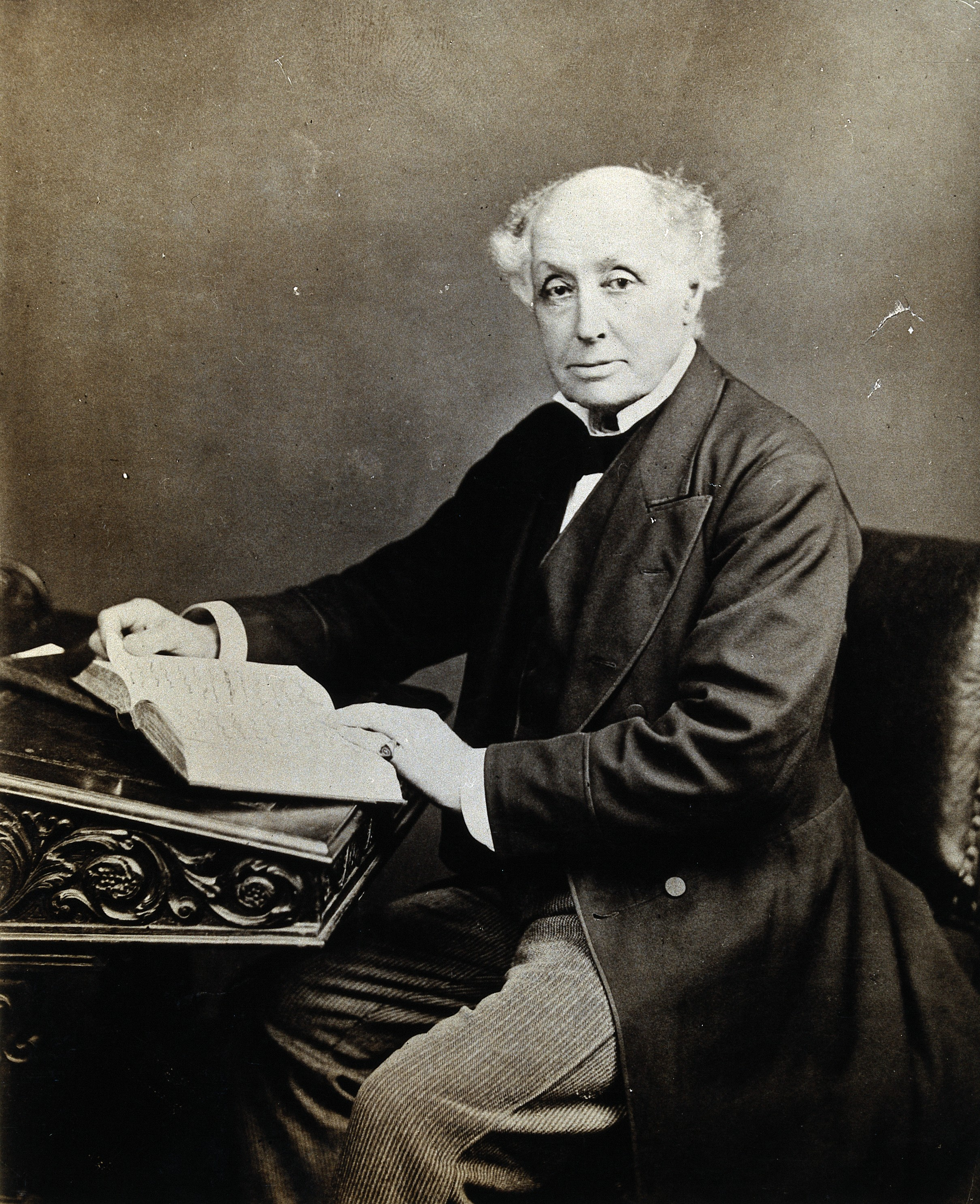 Admiral James Charles Prevost. Photograph. Another photo of him. Iconographic Collections Keywords: portrait photographs